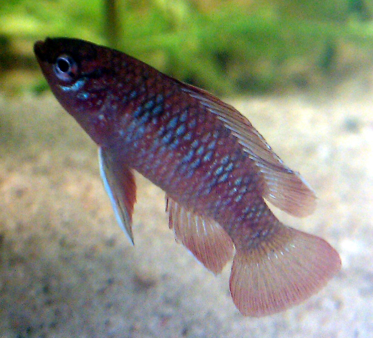 Author: ATuin-hek Source: Camera phone